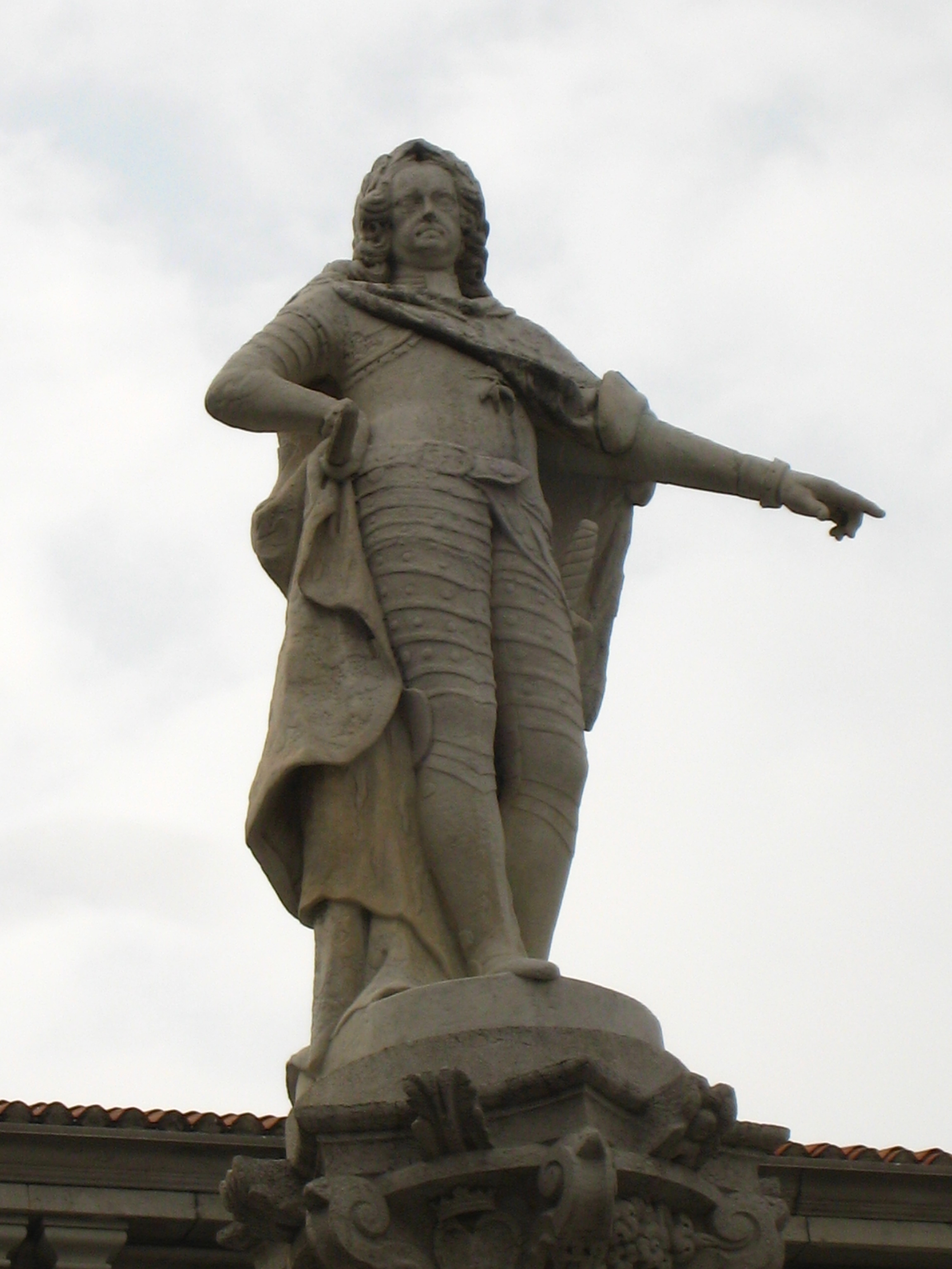 Carlo VI Monument - Trieste - Italy